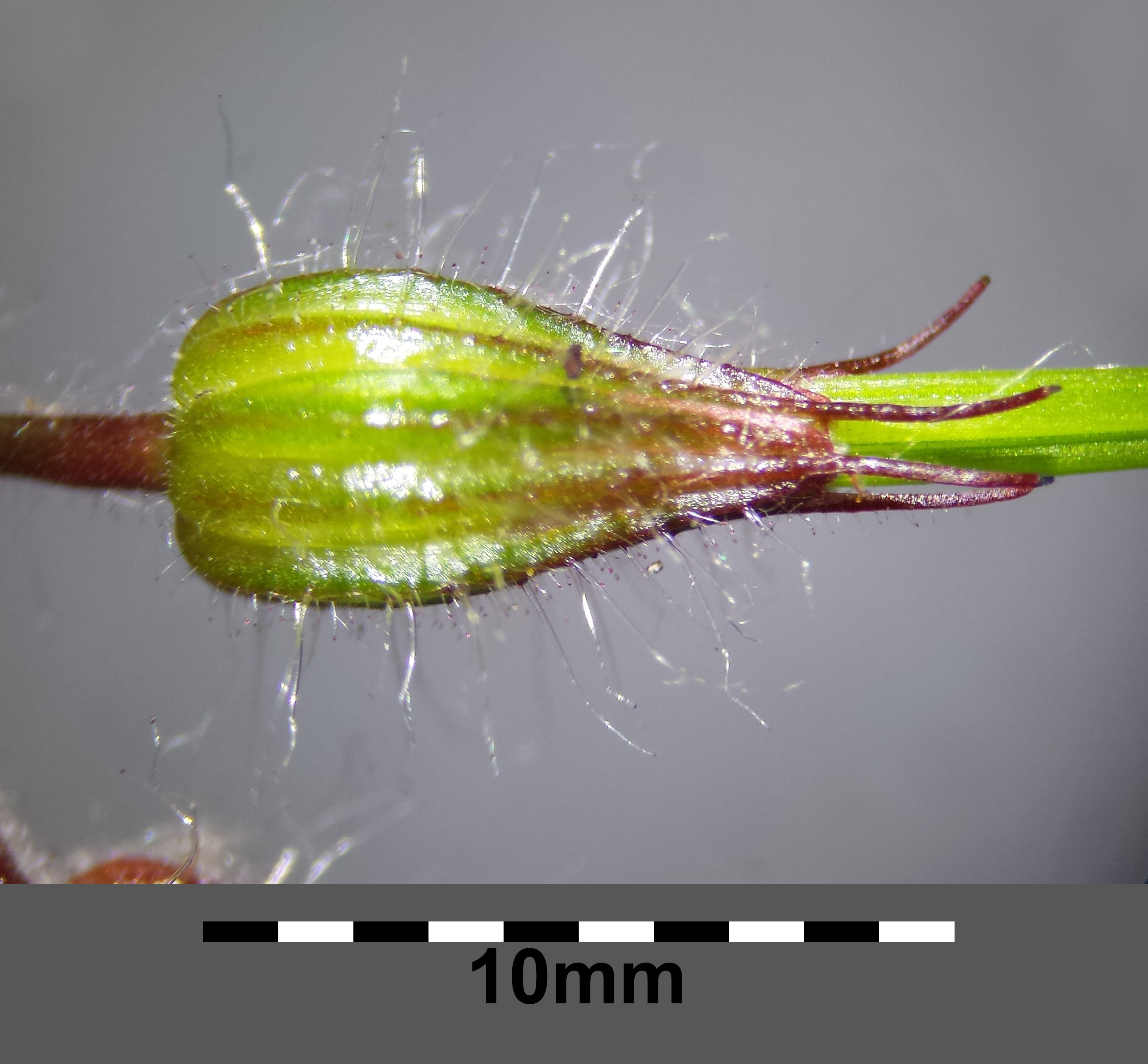 Hairy calyx Taxonym: Geranium robertianum (s. str.) ss Fischer et al. EfÖLS 2008 ISBN 978-3-85474-187-9 Location: Floridsdorf rail station, Vienna-Floridsdorf - ca. 160 m a.s.l. Habitat: ballast